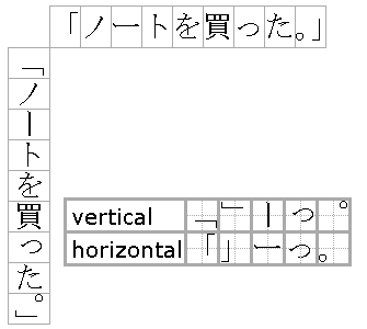 「ノートを買った。」 -- "[I] bought a notebook/notebooks." Horizontal and vertical writing in Japanese. Some characters take different presentation forms in horizontal and vertical writing modes. Also, a typical example of mixtures of horizontal and vertical formats that require large blank space :p